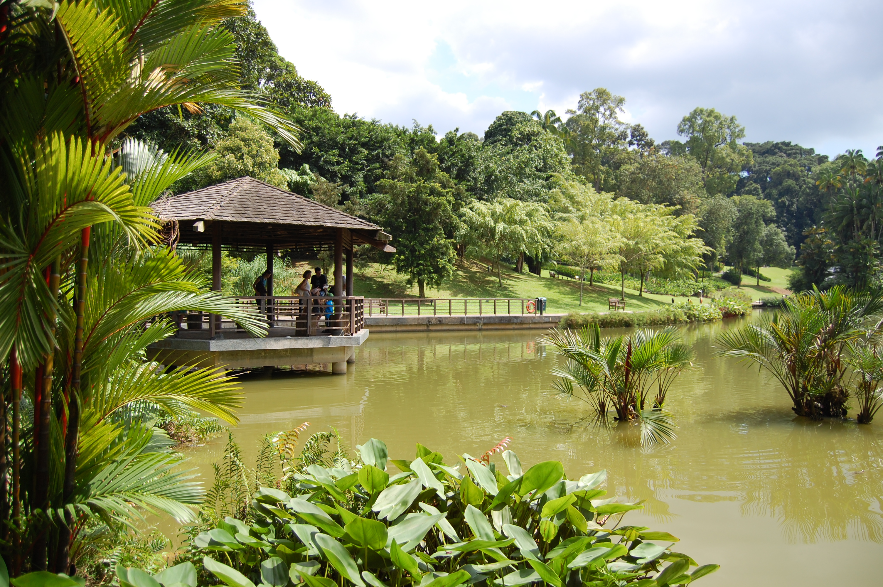 A pavilion in Symphony Lake, Singapore Botanic Gardens.